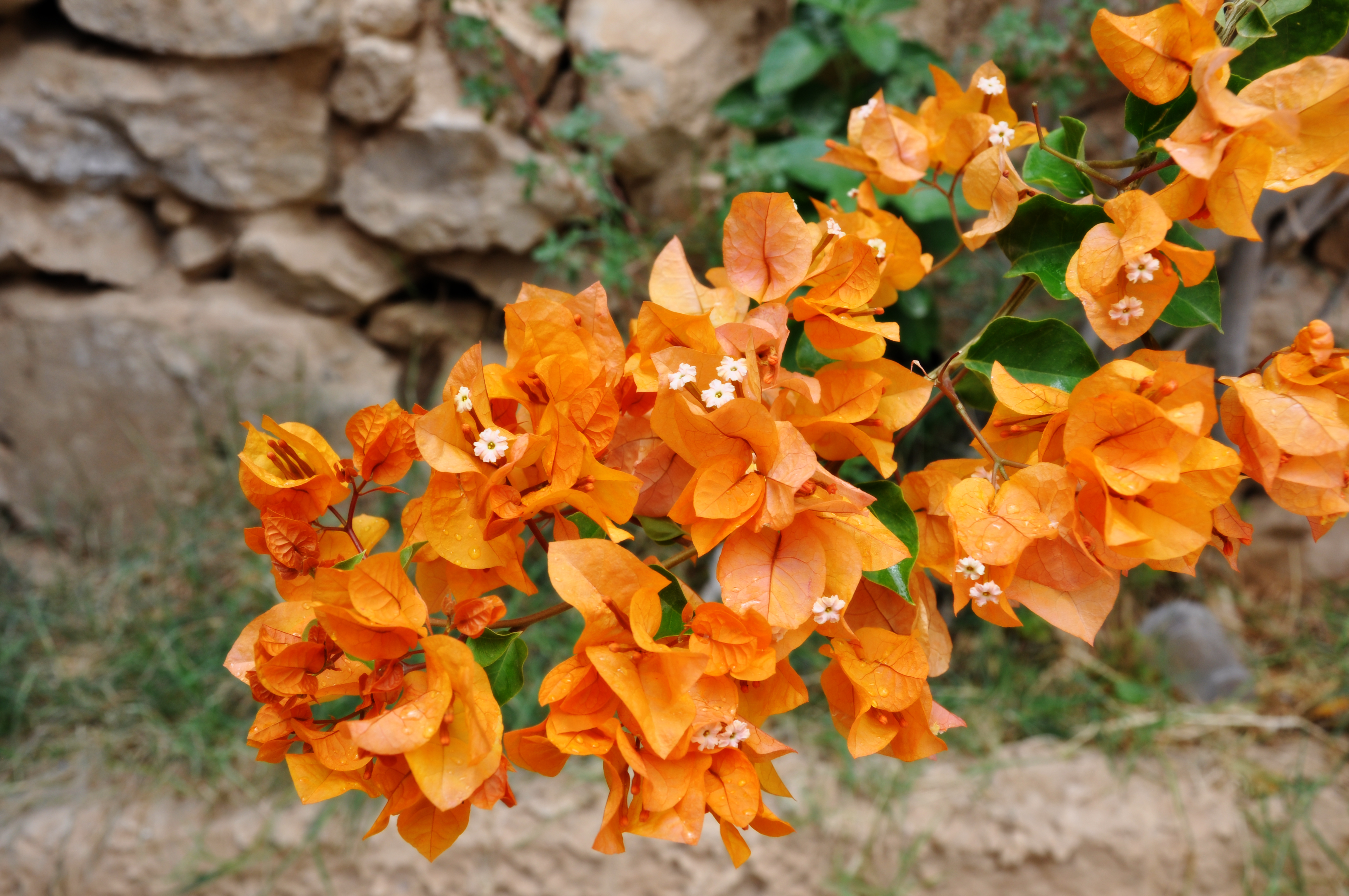 Taken in Palestina Jericho